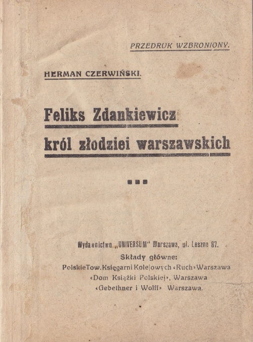 first page of a book published in 1933